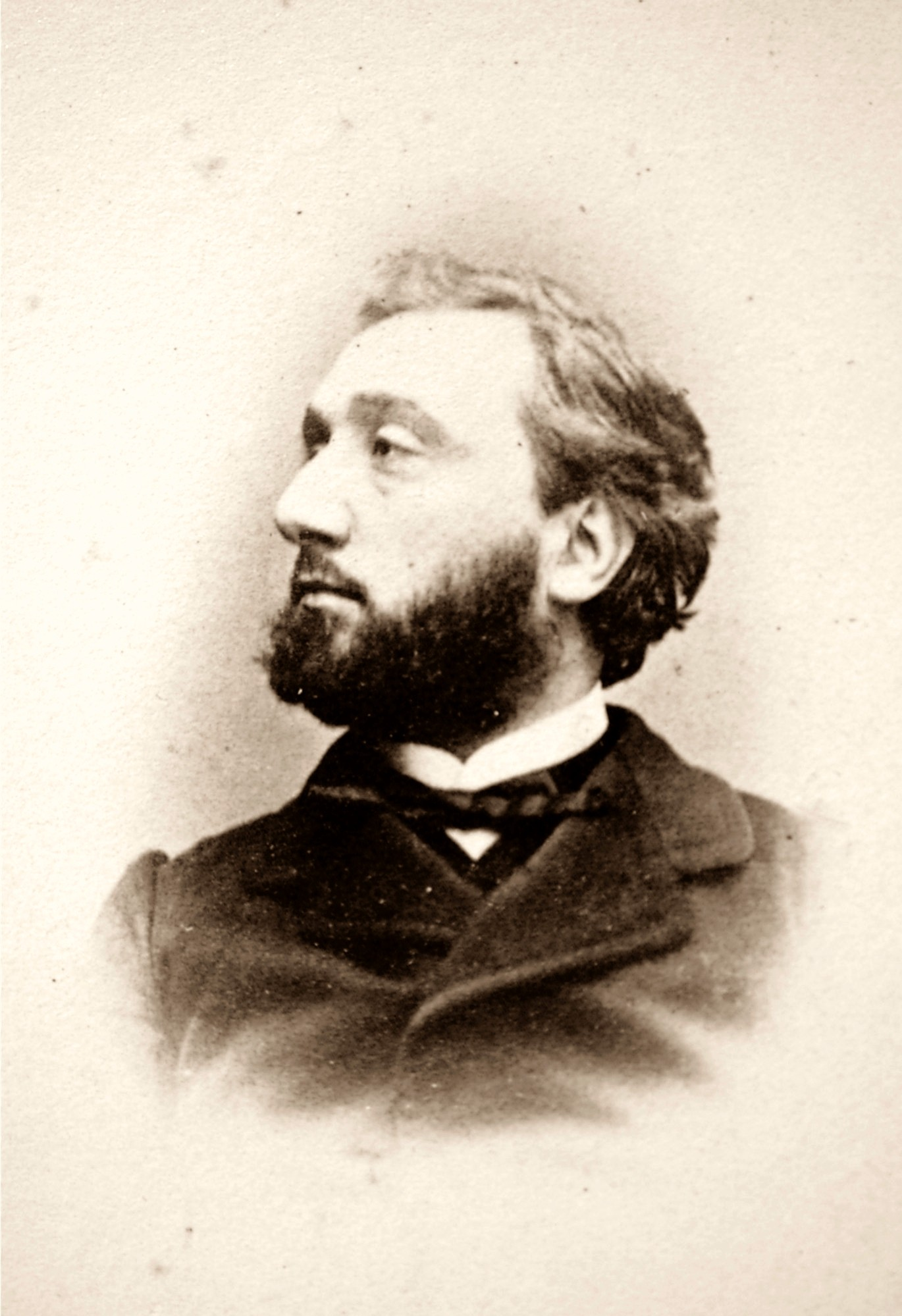 Léon Gambetta.